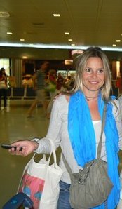 Eugenia Martínez de Irujo y Fitz-James Stuart, XII Duchess of Montoro, Grandee of Spain.